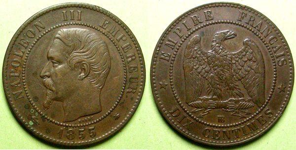 Ten centimes coin, 1855, with bust of Napeleon III